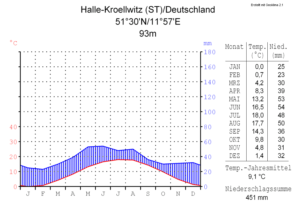 climate chart in the format by Walter and Lieth, metric, °Celsisus and millimeters, made with Geoklima 2.1